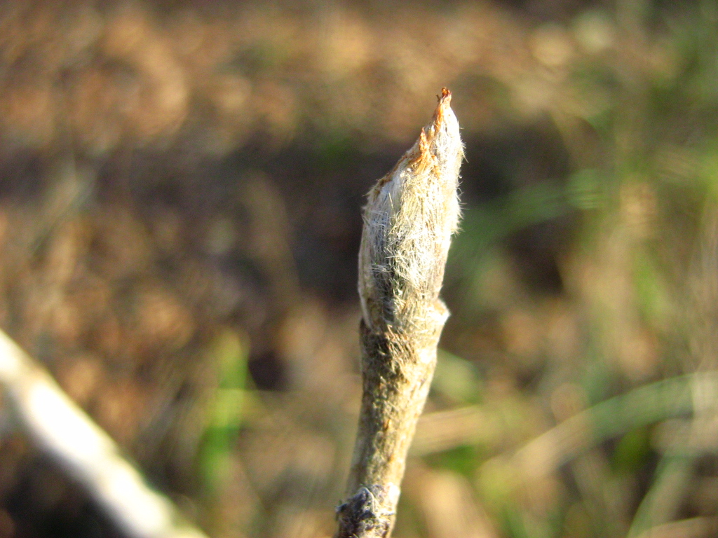 Bud of European Rowan Sorbus aucuparia on the banks of the river Havel in Oranienburg, Brandenburg, Germany